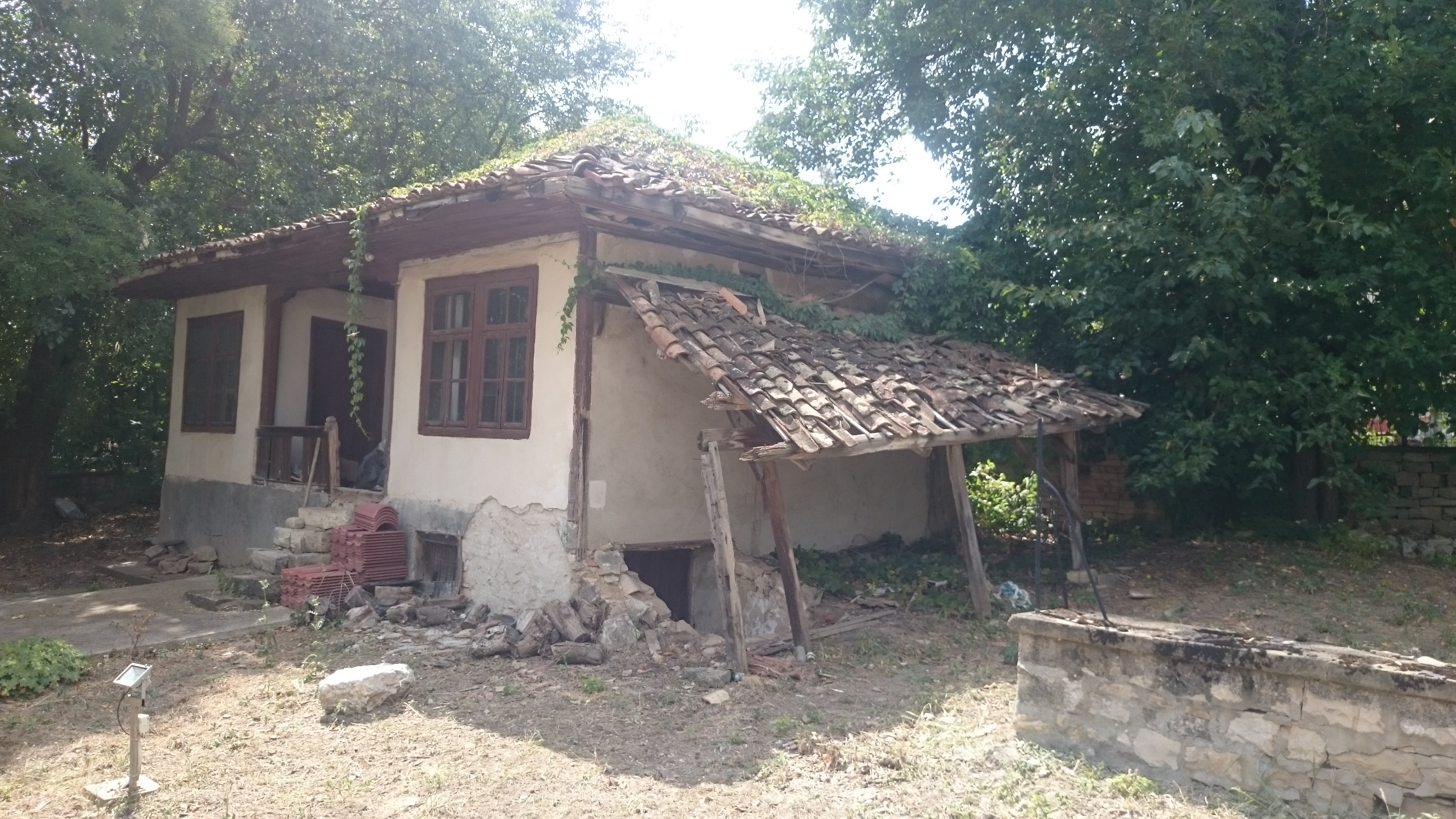 Monastery school in Polski Senovets